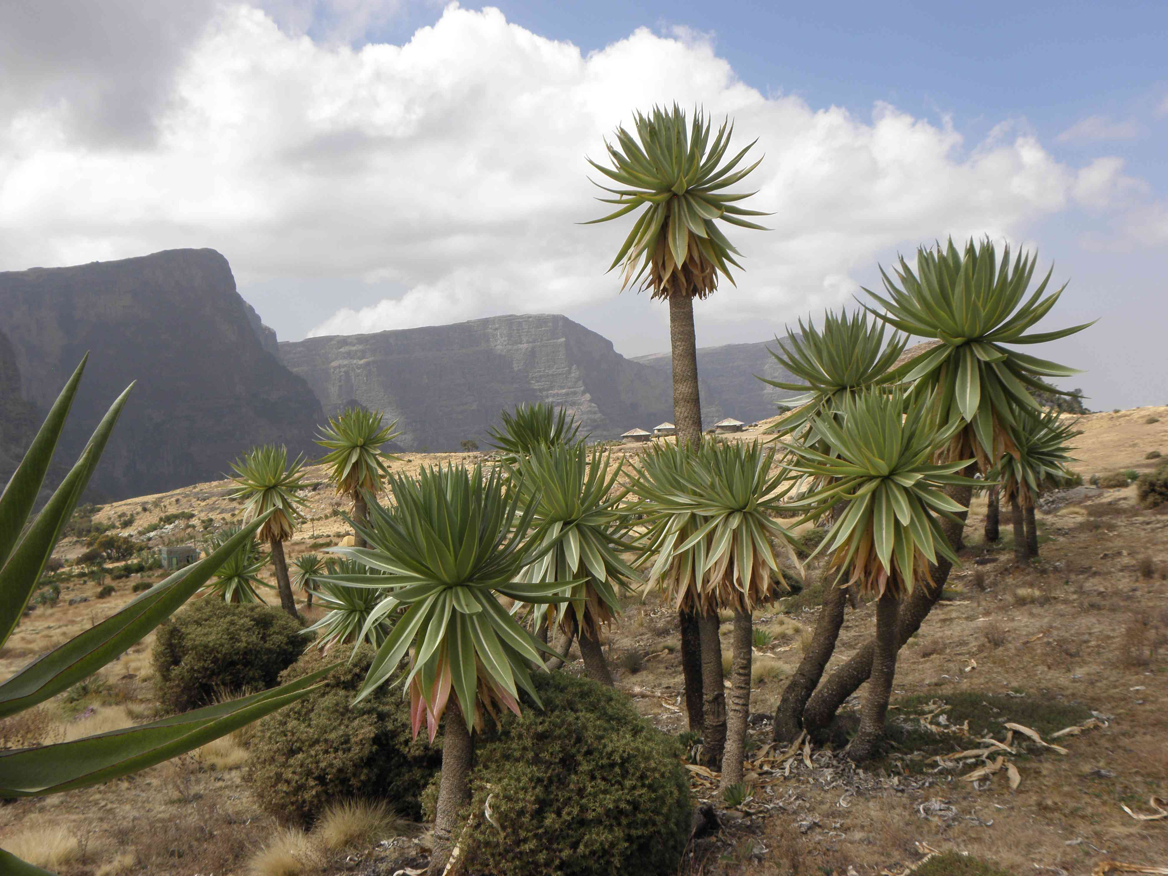 Lobelia phytopetalum in Semien Mountains National Park (Ethiopia)